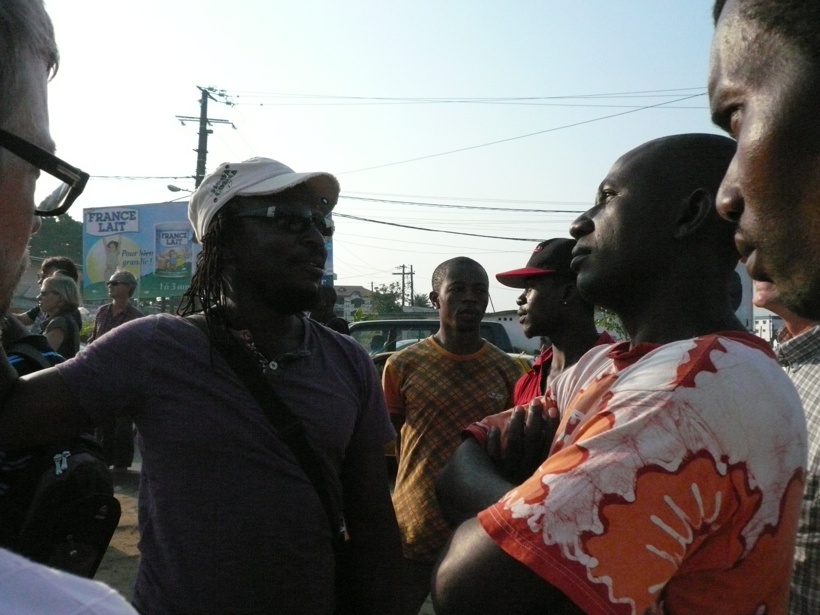 SUD Salon Urbain de Douala 2010. Photo by Chiara Somajni